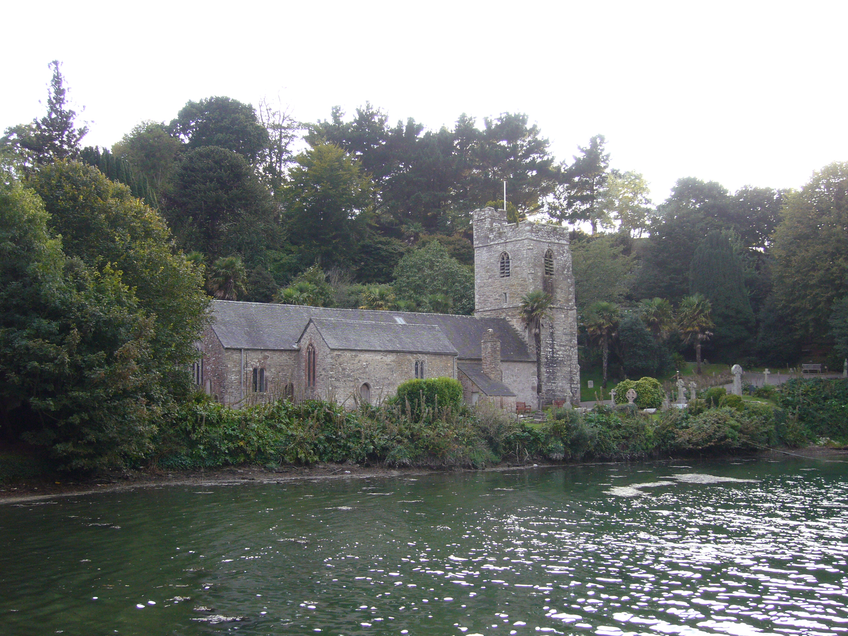 View of the church of St Just, at St Just in Roseland, Cornwall. Required attribution is: Photo by Tom Oates.